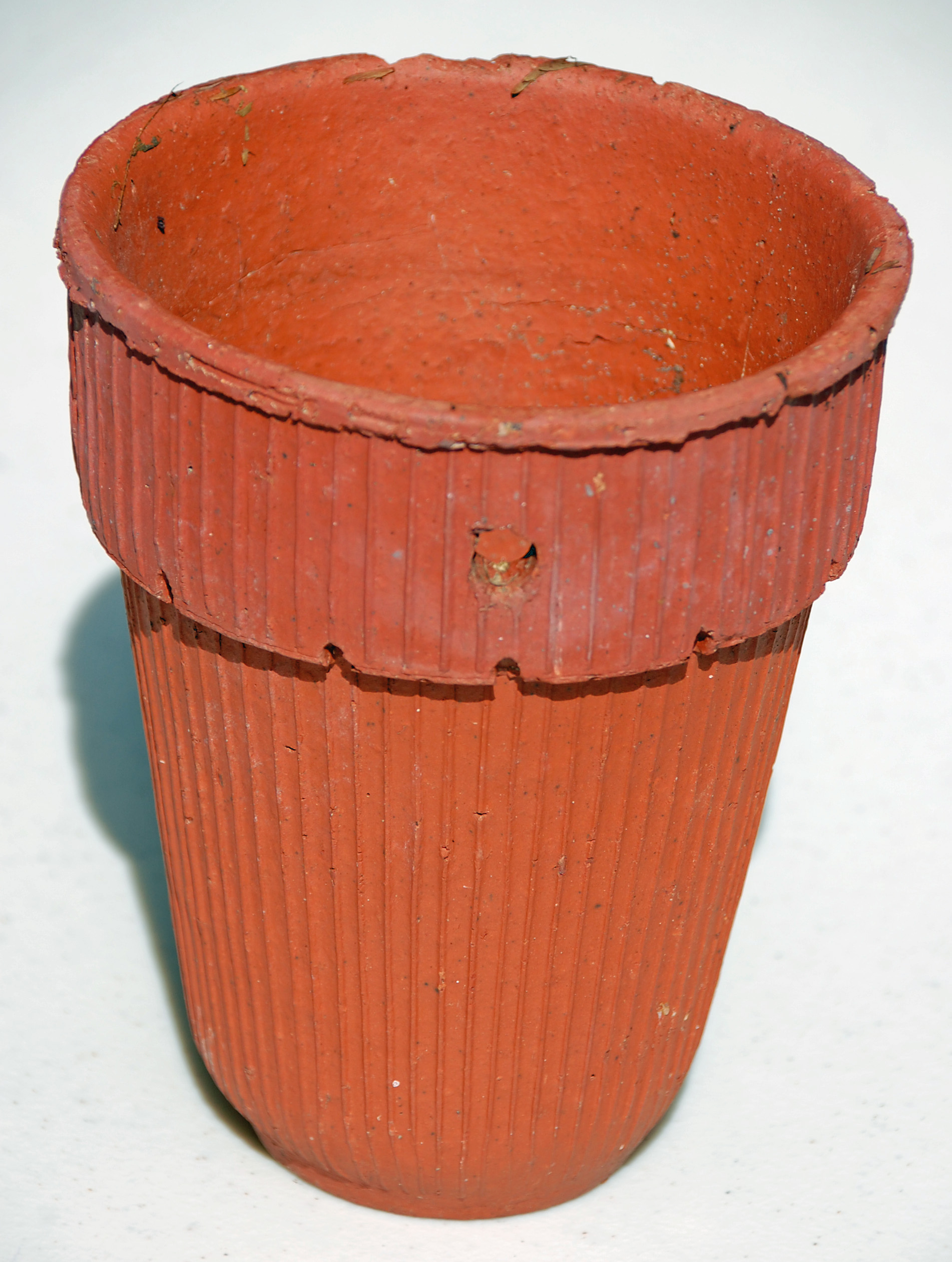 Herty turpentine cup, made of clay. The hole is for nailing to a pine tree. 18 cm tall, 14 cm across